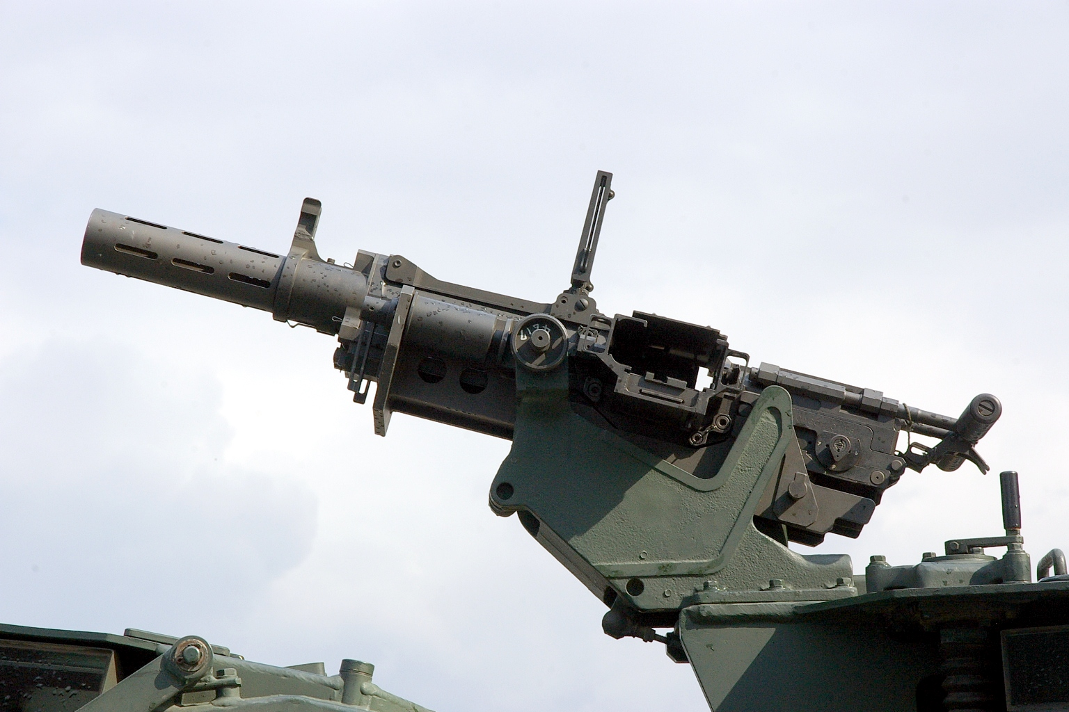 JGSDF Type96 40mm Automatic Grenad Gun on Type96 WAPC.